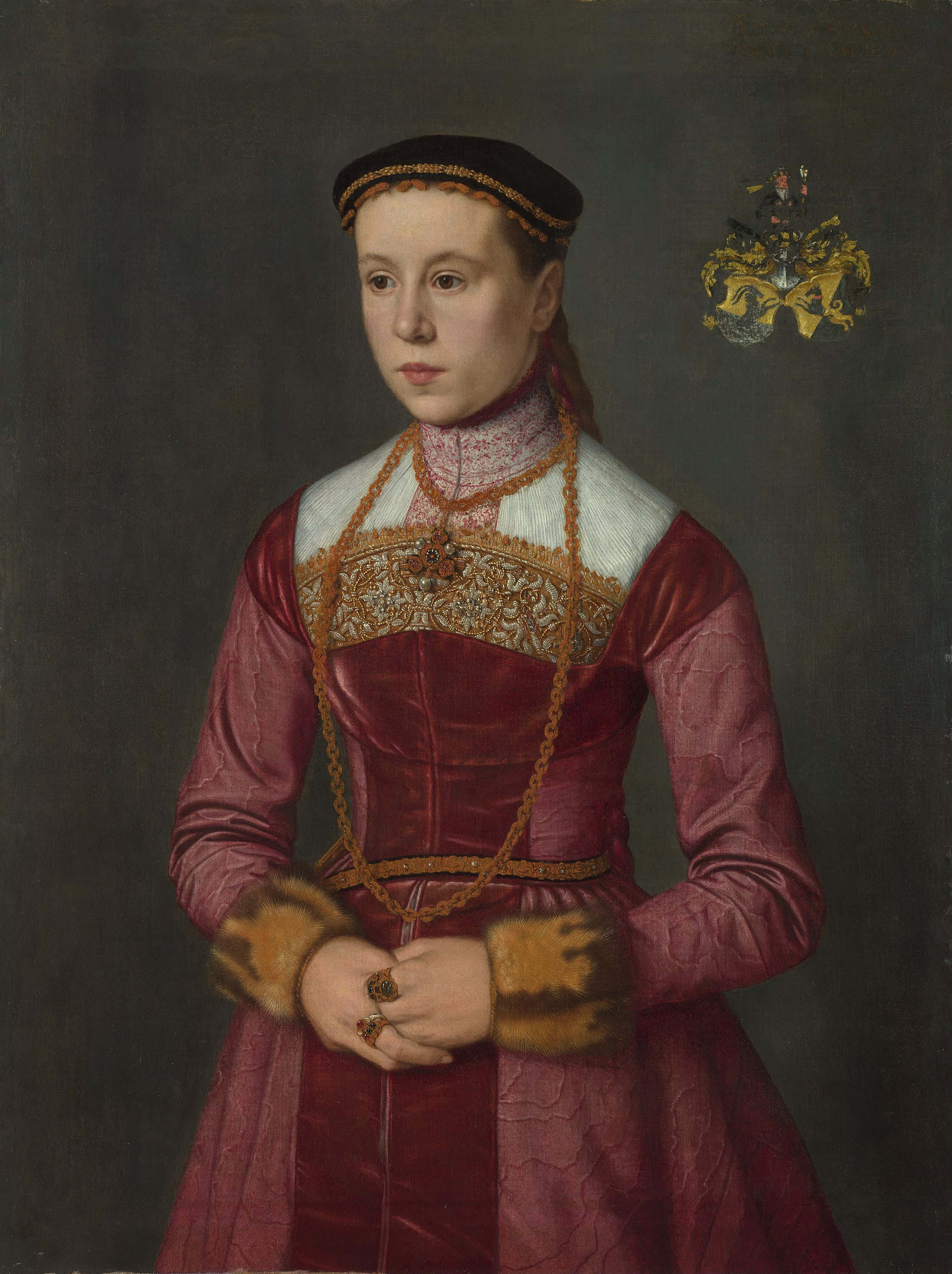 Susanna Stefan (died 1594), wife of Wolff Furter (1538? - 1594) of Nuremberg